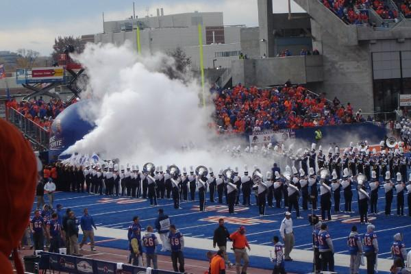 boise state taking the field on november 15 2008